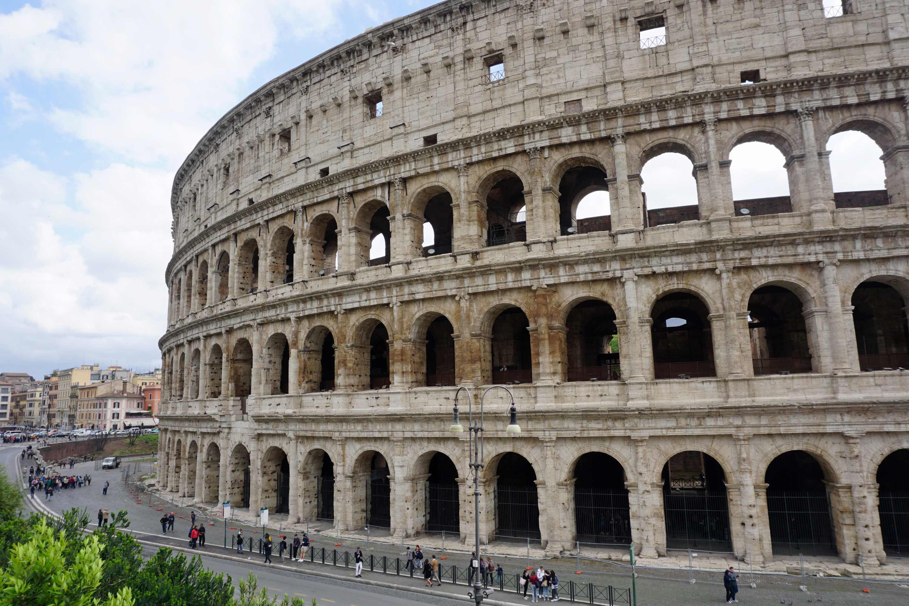 Roman Coliseum, Rome, Italy.